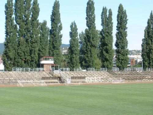 PVSK stadium